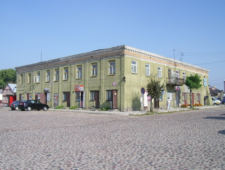 City hall in Żelechów, Poland.